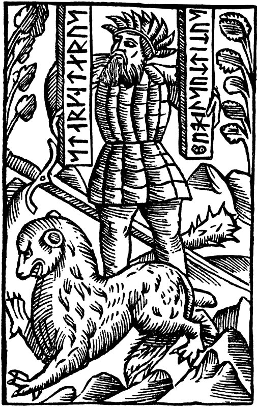 Starkaðr holding two rune staffs. On the rune staffs are written in Latin "Starcaterus pugil Suctius". From Olaus Magnus' "Historia de gentibus septentrionalibus".